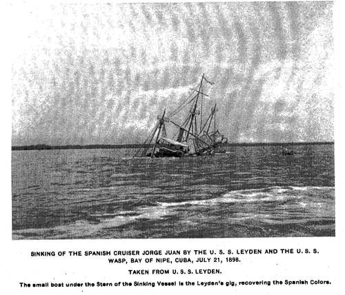 Sinking of Spanish Sloop Jorge Juan by USS Leyden and USS Wasp, Bay of Nipe, Cuba, July 21 1898. Taken from USS Leyden. The small boat under the stern of the sinking vessel is the Leyden's gig, recovering the Spanish colours, from 1899 article of Navy Institute Press, Public domain. Other information